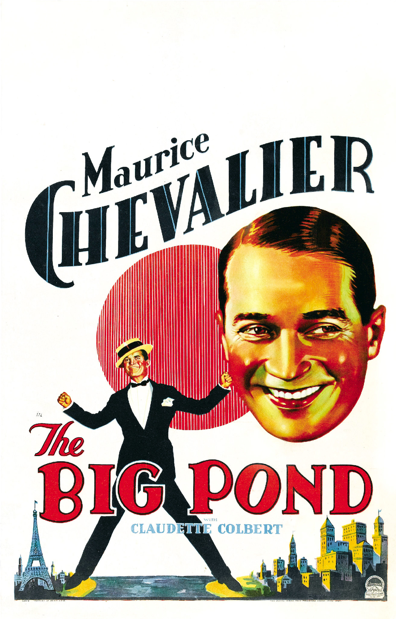 Window Poster for the 1930 film The Big Pond. There are no copyright marks on the poster. At lower left is 2904 Country of origin USA. At lower right is This poster leased from Paramount Famous Lasky Corp and the Paramount logo.